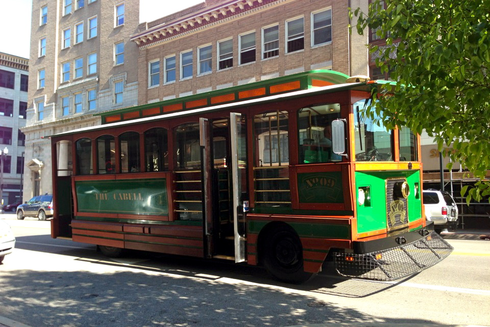 The No. 9 Trolley (aka "The Cabell") on Fourth Avenue. Taken April 25, 2013 with an iPhone 5.